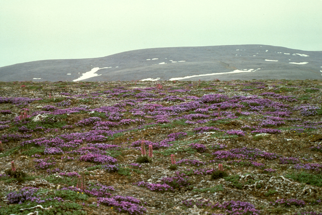 Blackish (or Purple) Oxytrope (Oxytropis nigrescens), St. Matthew Island, Bering Sea, Alaska.